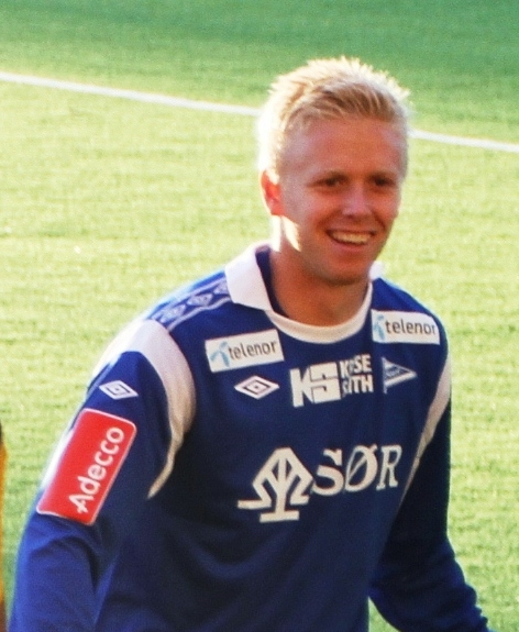 IK Start goalkeeper Arild Østbøe, on loan from Viking IF (Stavanger).